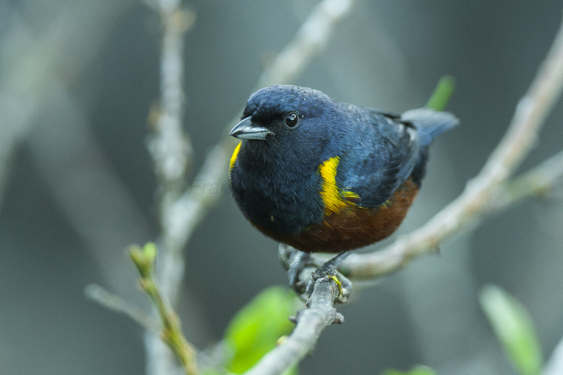 Chestnut-bellied Euphonia - Itatiaia - Brazil_MG_0374